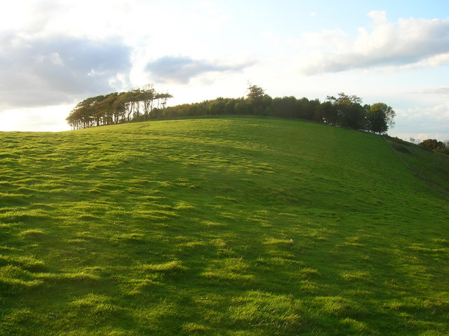 Chanctonbury Ring The eastern side just about protrudes into this square. Chanctonbury Hill is the highest point here and affords views to the North Downs and the Isle of Wight, I was even able to make out the towers of Fawley Oil Refinery in the evening sun. First inhabited by tribesman from the Bronze Age, the defensive works are from the Iron Age, whilst the Romans built a temple in the middle and the Saxons used it as a fort. Throughout the ages it has been used as a beacon and had become a tourist attraction by the early 19th century. The ring has also been associated with hauntings, fairies and UFOs. The trees were planted in the earthworks by the Goring family from Wiston House below in around 1760 though most of those were lost in the hurricane of 1987. However, a descendent of Charles Goring replanted the crown with beech trees soon after.